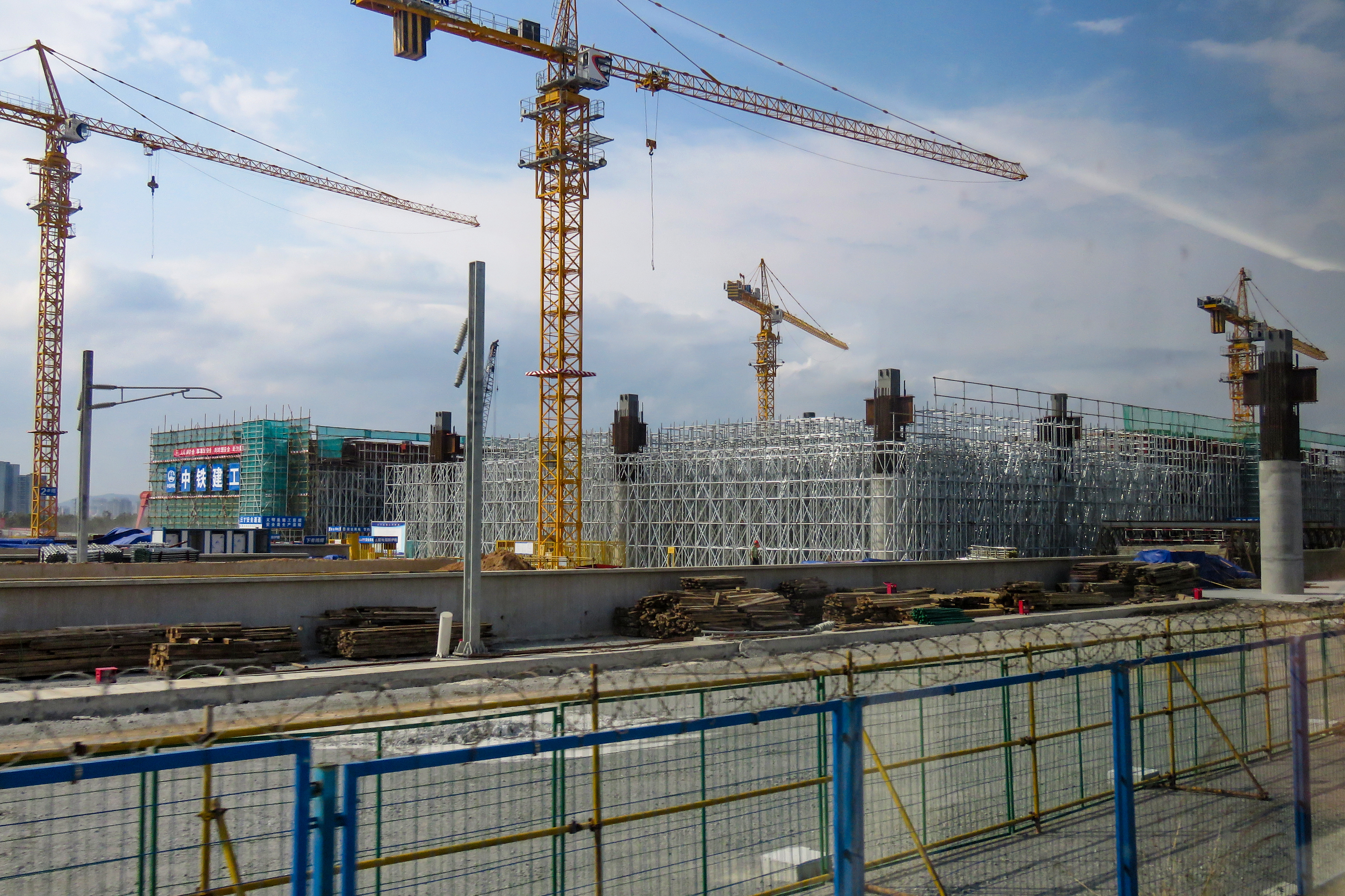 And the station building is on the growth.